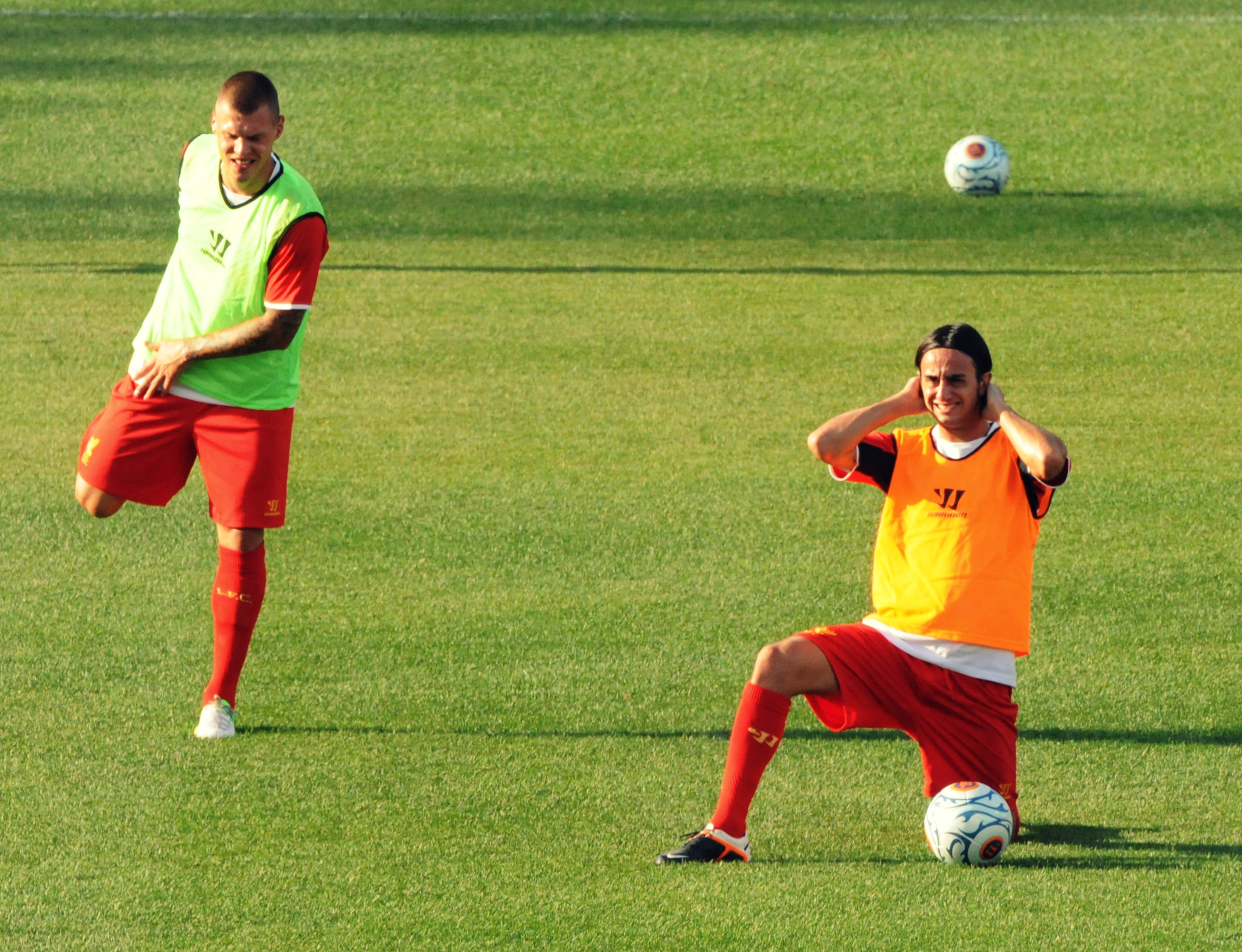 Martin Skrtel and Alberto Aquilani before the game between Liverpool and AS Roma at Fenway Park, 25 July 2012.